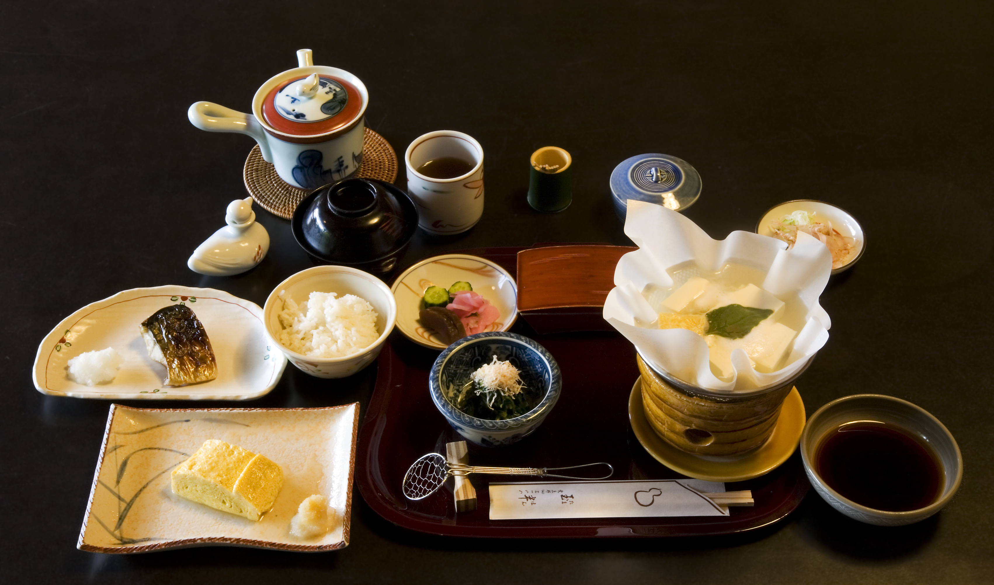 A Traditional breakfast at Tamahan Ryokan, Kyoto. The dishes include roast mackerel, dashimaki (Japanese omelette, here Kansai style), rice, a paper pot (kami nabe) of yudofu over a small brasier, with soy sauce and toppings (negi and katsuobushi), tsukemono (cucumber, pickling melon, turnip) and green tea. In the black cup is miso soup.